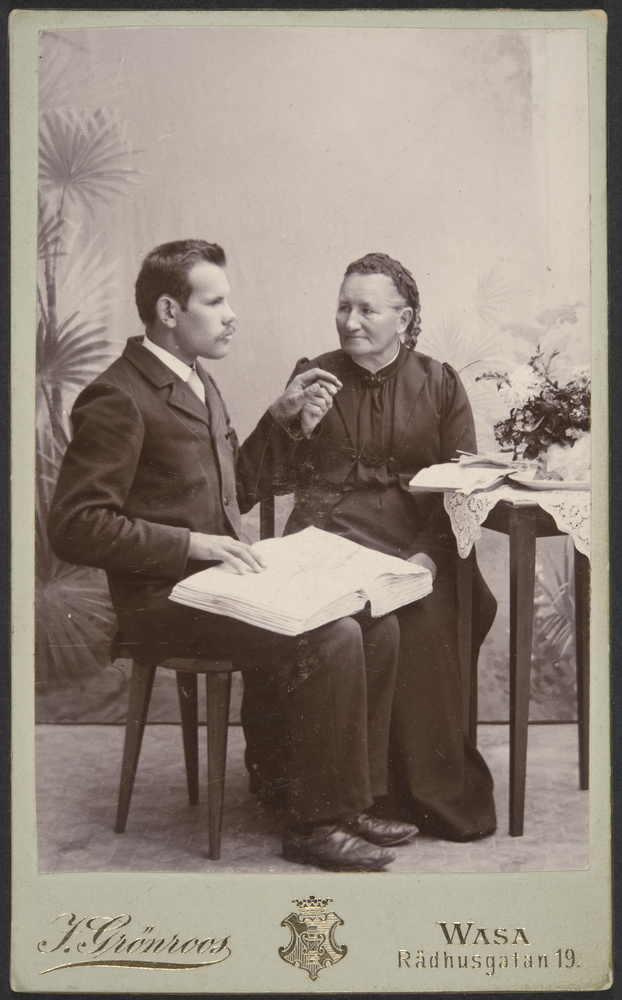 Photograph of the Finnish teacher of deaf and mute people Anna Heikel (1838–1907), with her student Frans Leijon.